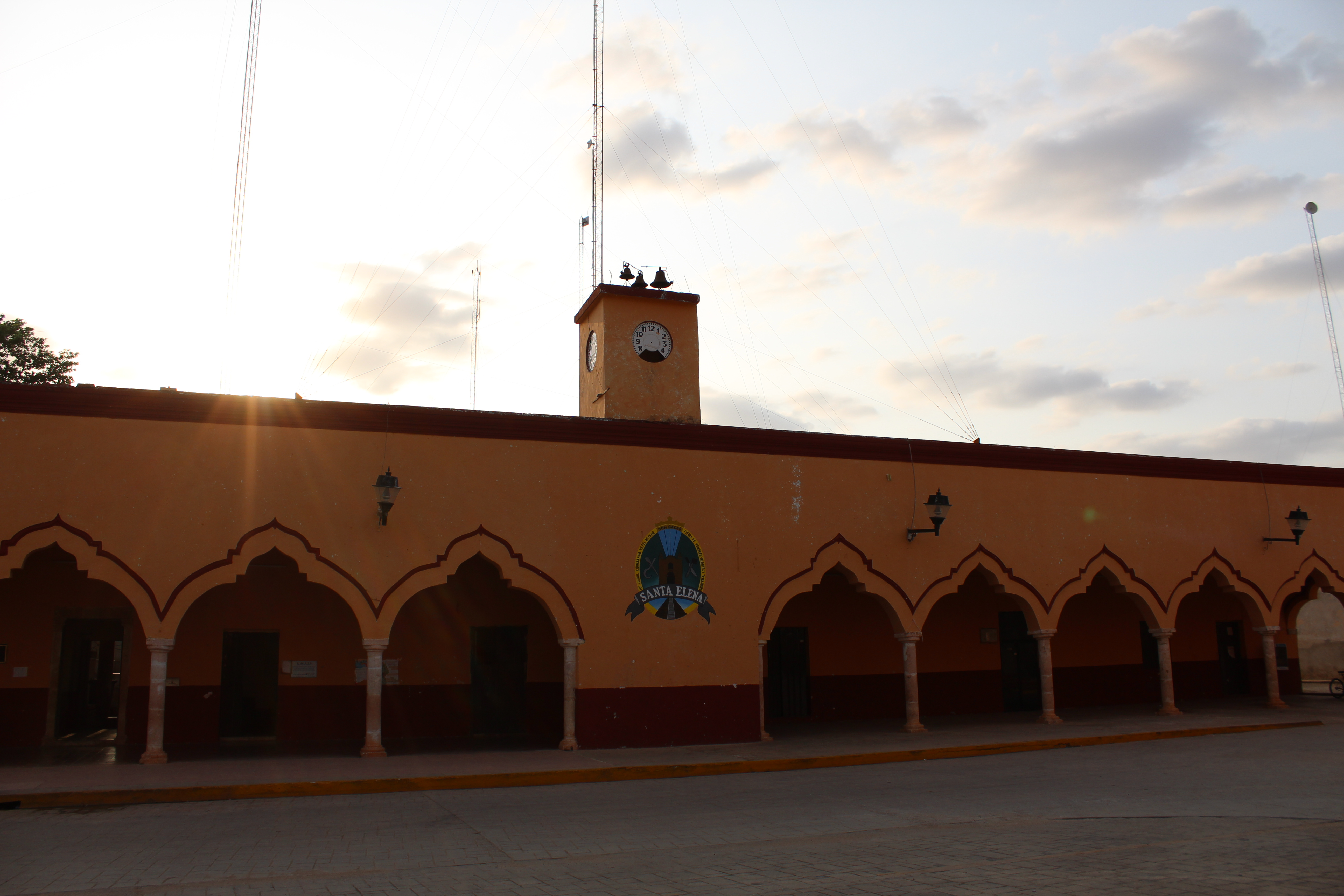 Seat of the City Hall of the municipality of Santa Elena, state of Yucatan, Mexico.